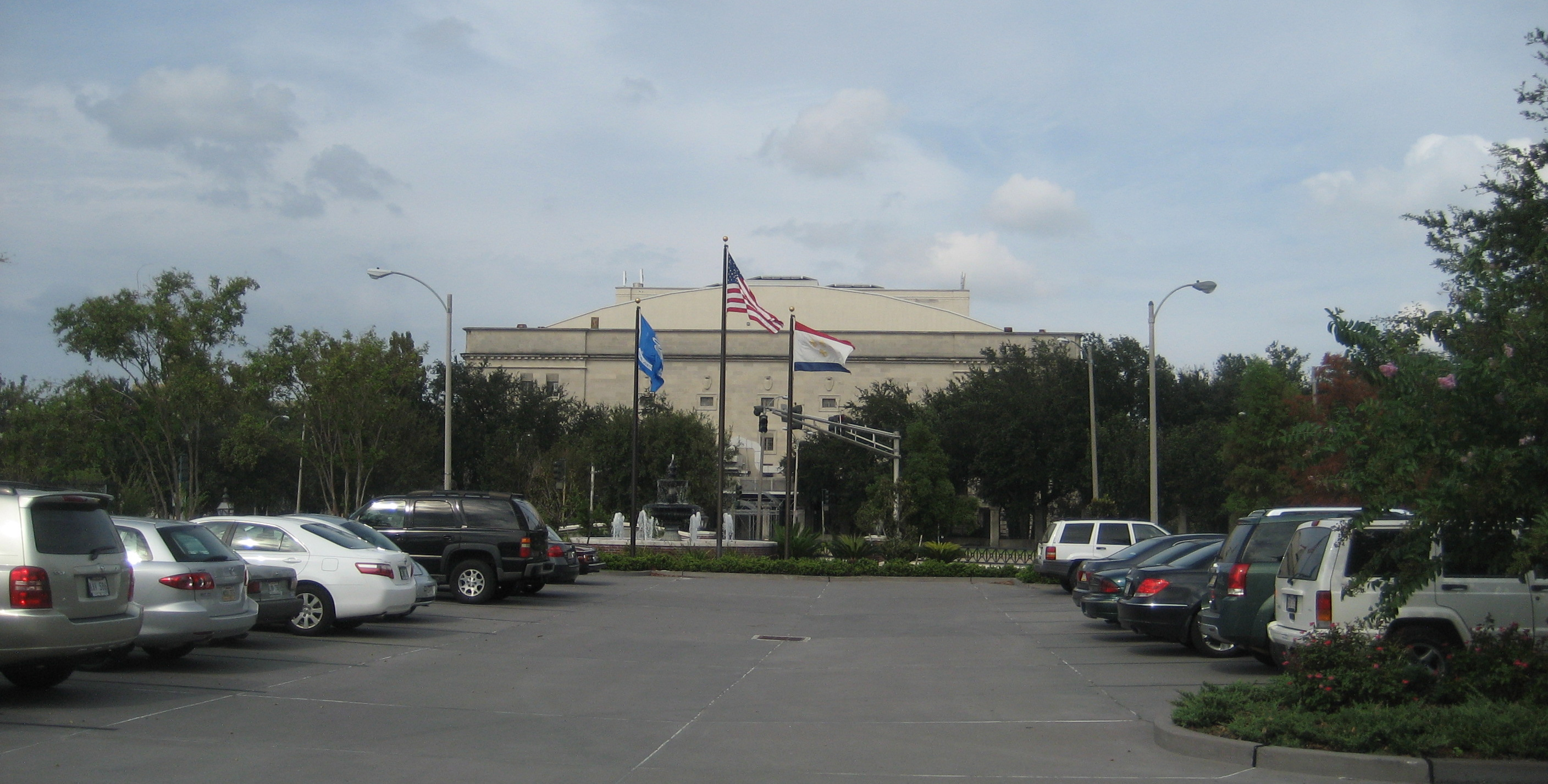 New Orleans: View of the Municipal Auditorium from Basin Street Station.